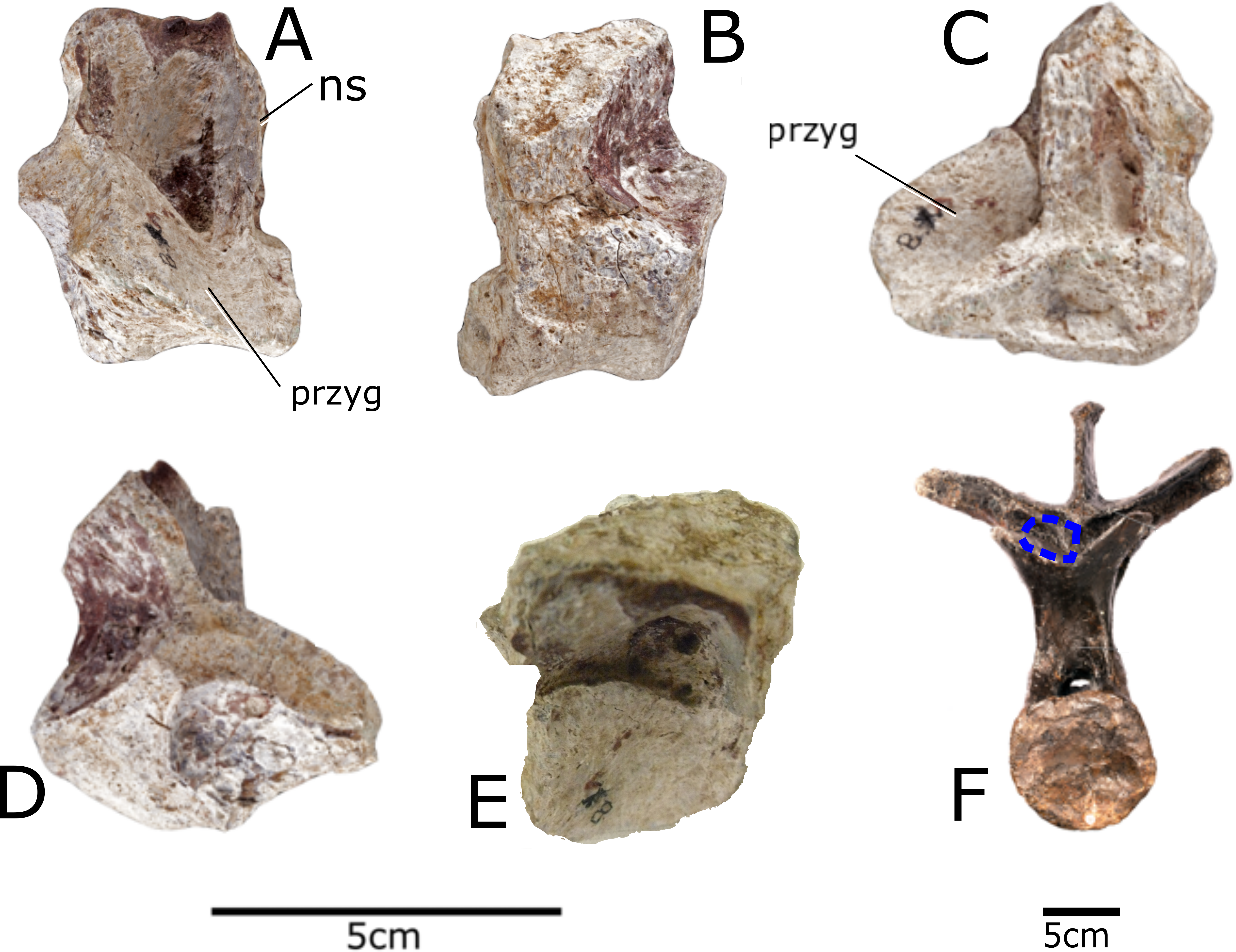 Figure 4: Vertebra of Paranthodon africanus NHMUK R47338. (A) Anterior; (B) posterior; (C) left lateral; (D) right lateral; (E) dorsal; (F) comparison with dorsal vertebra five of NHMUK R36730 showing location of fragmentary vertebra of Paranthodon. ns, neural spine; przyg, prezygapophysis. Scale bar on left is for (A), (B), (C), (D), and (E). Scale bar on right applies to (F) only. Images copyright The Natural History Museum.